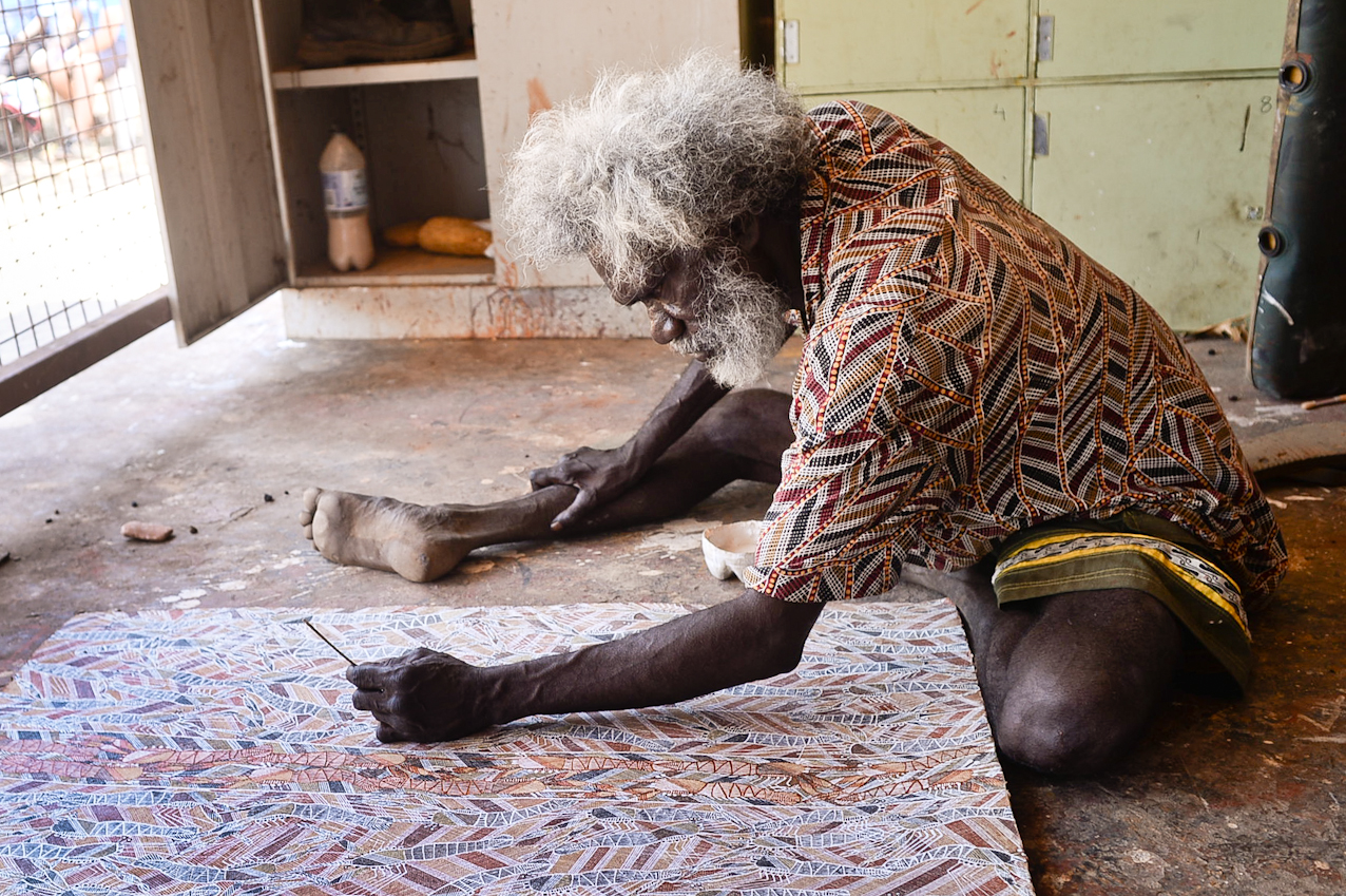 Arnhem Land artist Glen Namundja working on an artwork.